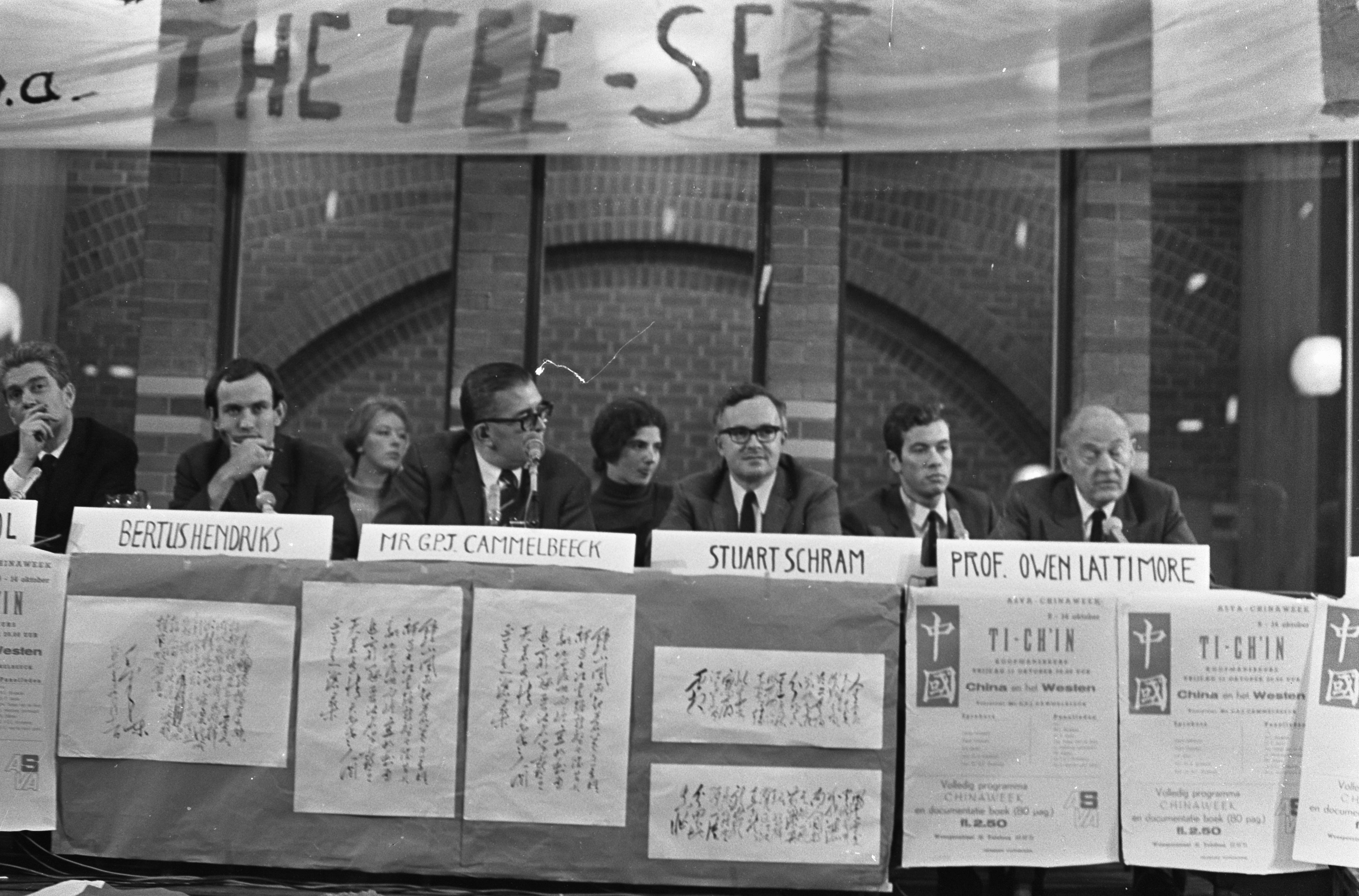 Chinaweek Teach-in (Ti-Ch'in) in Amsterdam (the Netherlands),13 October 1967. Left to right: K.S. Karol (=Karol Kewes), Bertus Hendriks, George Cammelbeeck, Stuart Schram & Owen Lattimore. A sign above says "The Tee-Set"